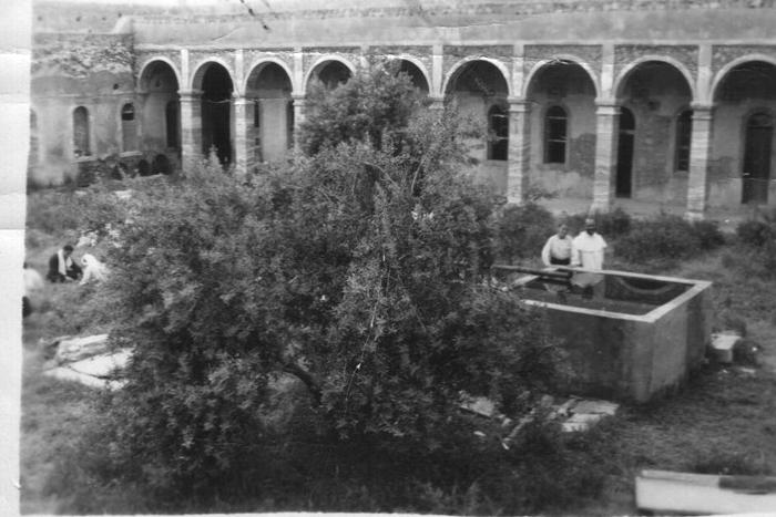 Monastery of Mar Oraha in Batnaye, Iraq